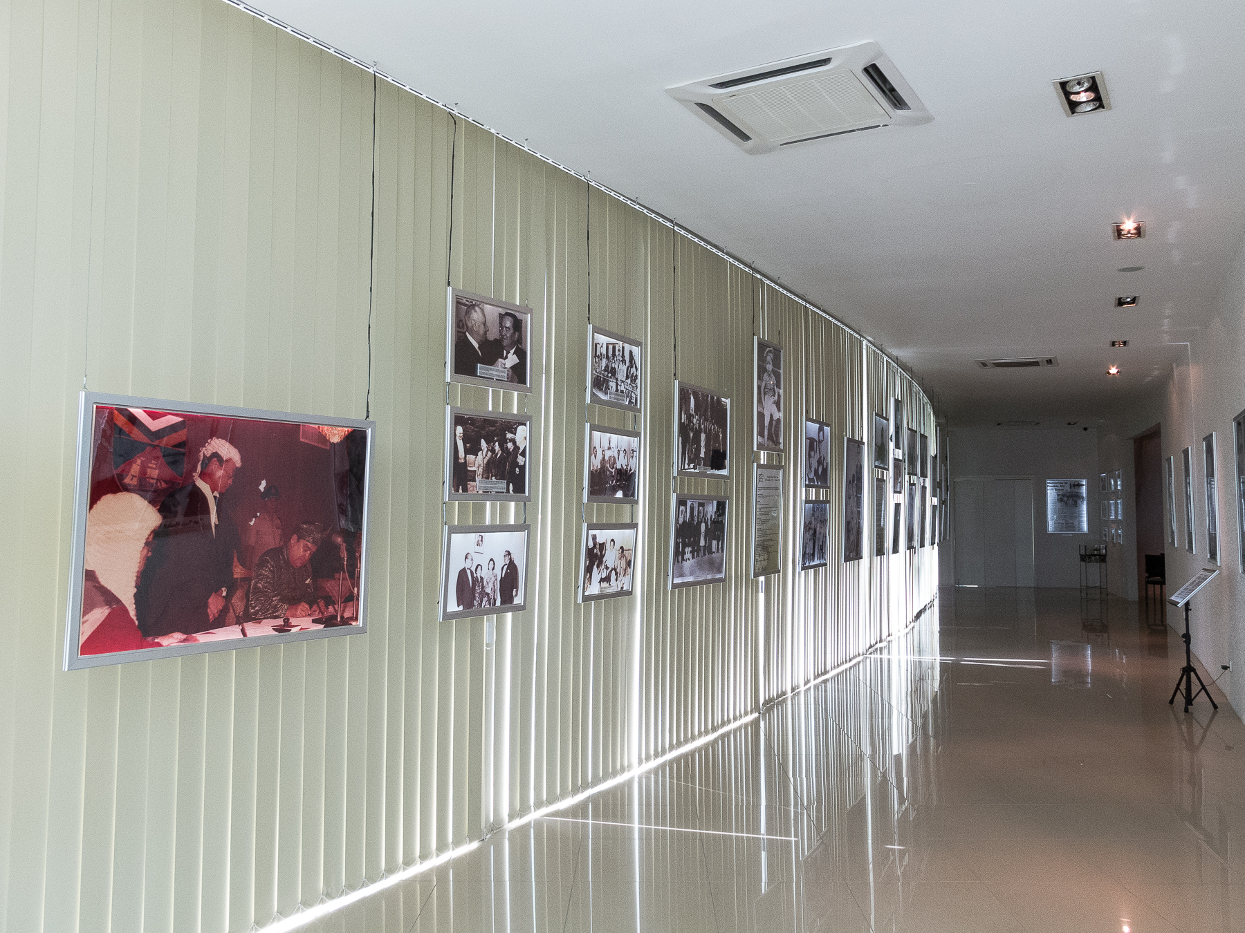 Exhibition Hall at Double Six Monument (Tugu Peringatan Double Six) in Sembulan, Kota Kinabalu